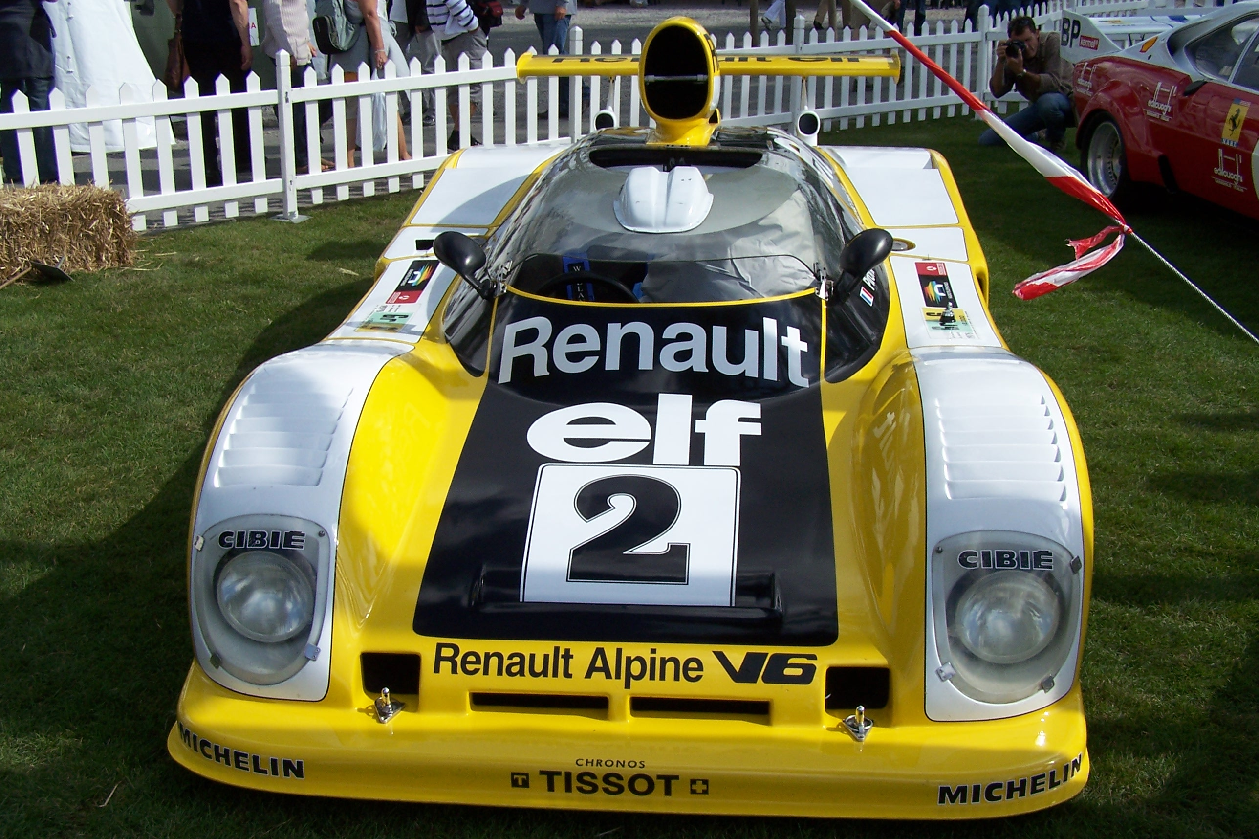 This is an Alpine-Renault V6, photographed when "Le Mans Classic"